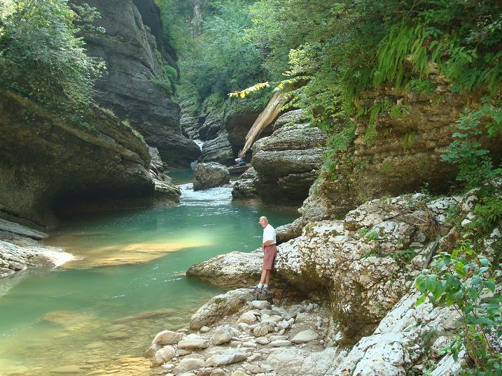 Kurdzhips river in Guamka Canyon, Krasnodarsky krai, Russian Federation